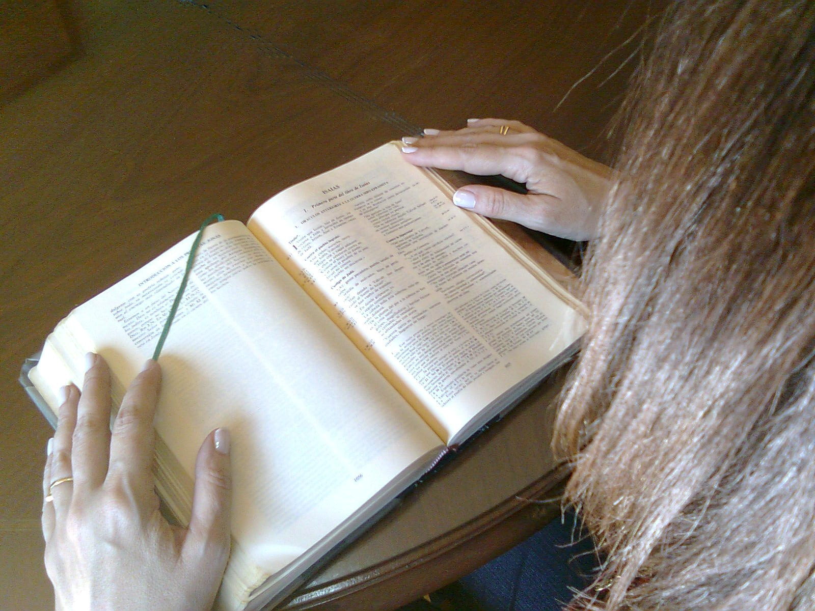 Lay woman reads and meditates the beginning of the Book of Isaiah (Jerusalem Bible)